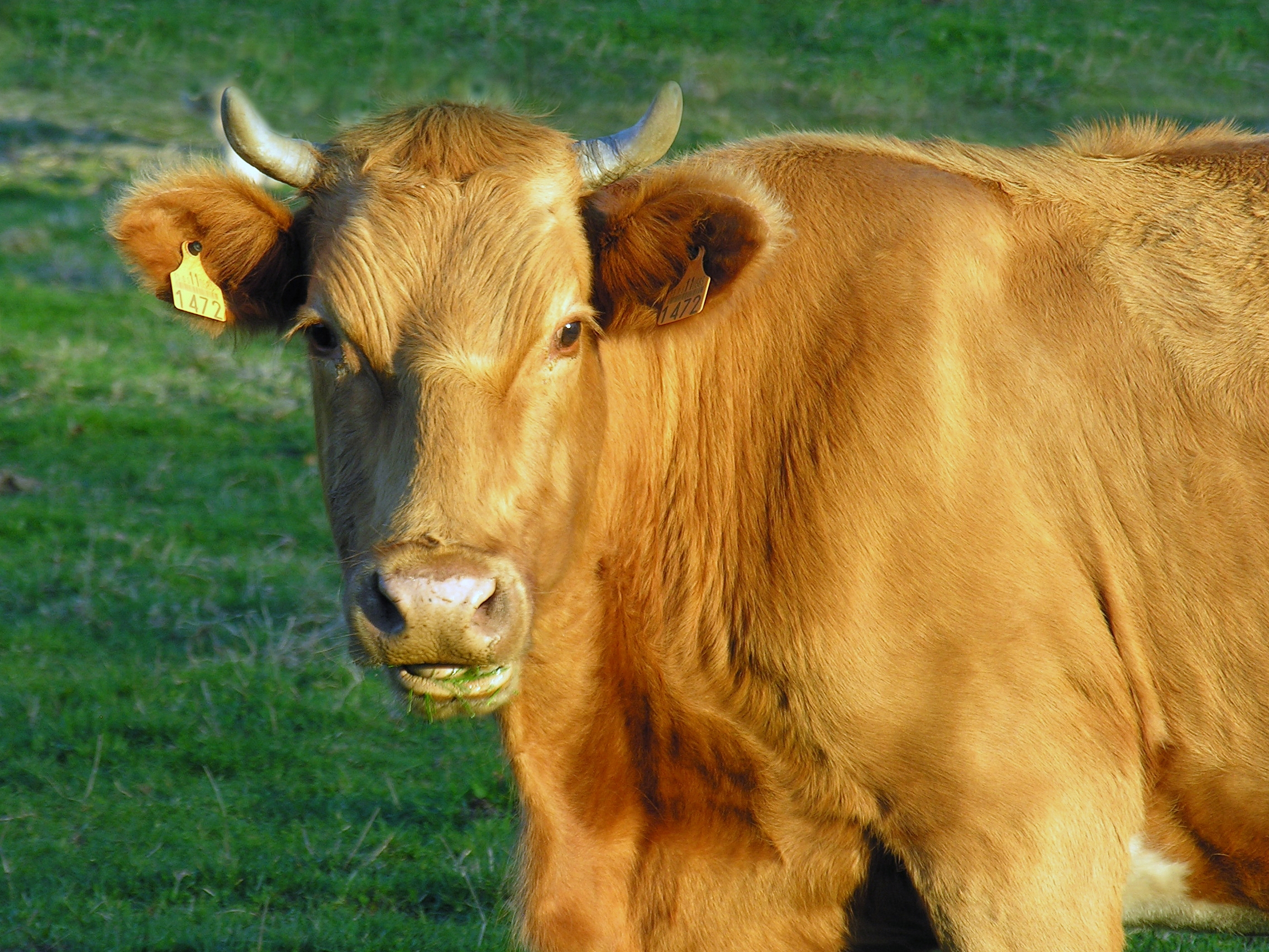 Cow Arzúa, Galicia)